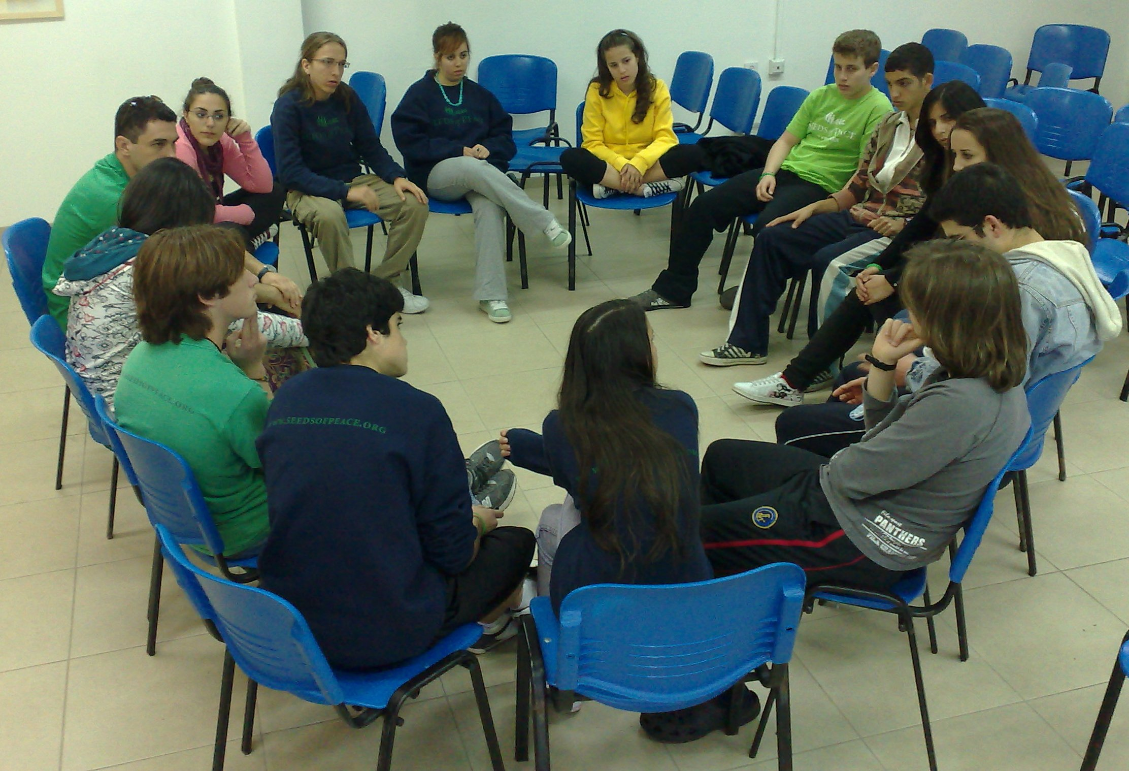 On March 13 and 14, Seeds of Peace held a leadership & dialogue seminar for 60 Jewish Israelis and 20 Arab Israelis in Shlomi (northern Israel). The group viewed the documentary "In October the Earth Shook," which describes the events surrounding the 2000 killing of Seed Aseel Asleh by Israeli police in 2000. The screening was followed by an intense dialogue. The next day, the seminar focused on the wider Israeli-Palestinian conflict, beginning with a showing of the Encounter Point documentary, and followed by another dialogue session. Later, participants took part in a leadership activity. The event ended with a letter-writing session, where Seeds addressed their Palestinian counterparts.